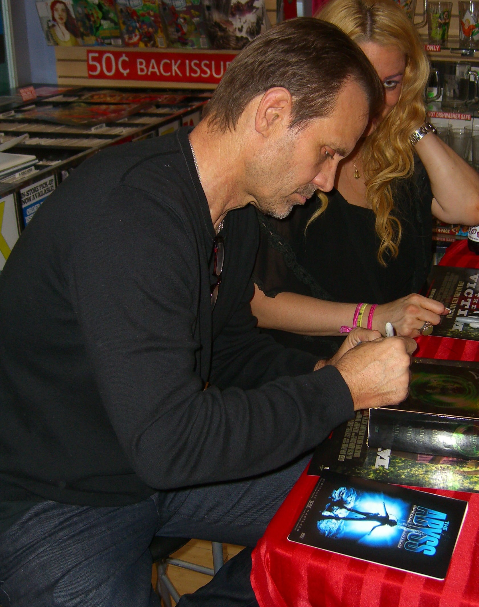 Actor/director Michael Biehn (The Terminator, Aliens, The Abyss) and his wife, actress Jennifer Blanc, at an August 23, 2012 appearance at Midtown Comics Downtown in Manhattan to promote Biehn’s directorial debut, the horror film The Victim, in which both Biehn and Blanc star. In the photo, Biehn is signing the DVD covers of the films Aliens and The Abyss, in which Biehn starred. The woman seated next to Biehn is his wife, actress Jennifer Blanc, who also stars in The Victim. This photo was created by Luigi Novi. It is not in the public domain, and use of this file outside of the licensing terms is a copyright violation.